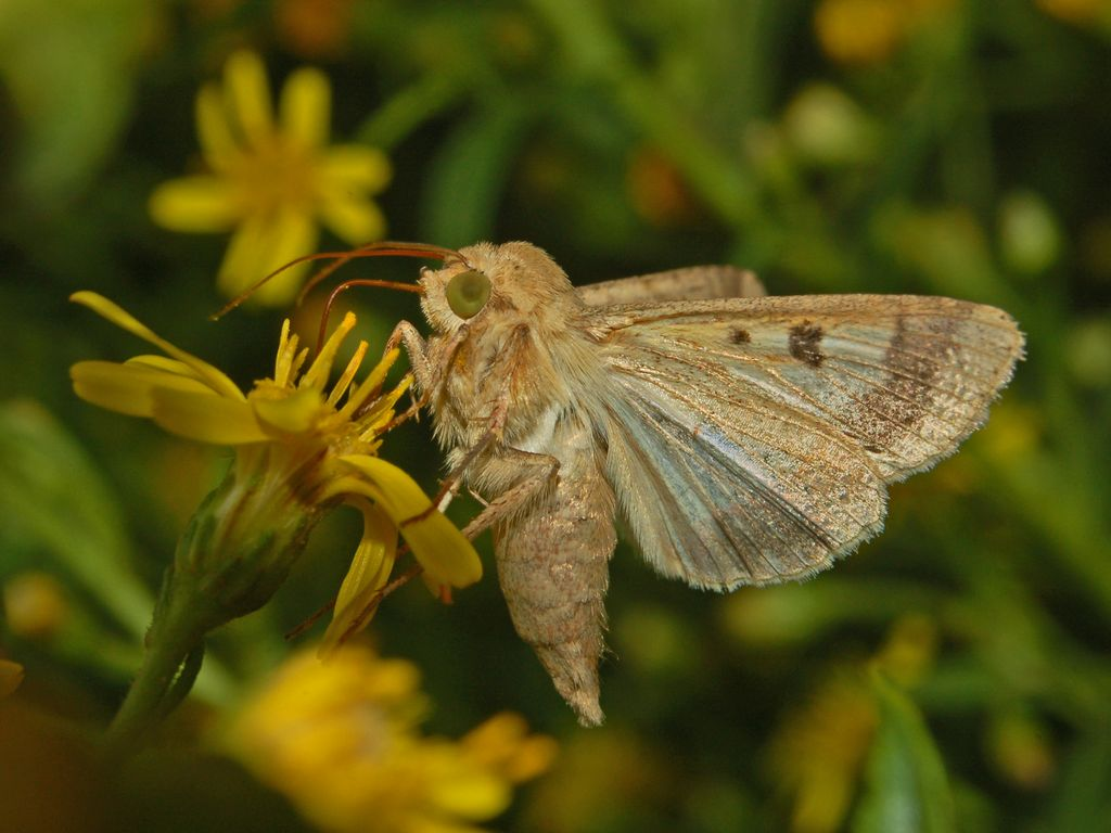 Helicoverpa armigera